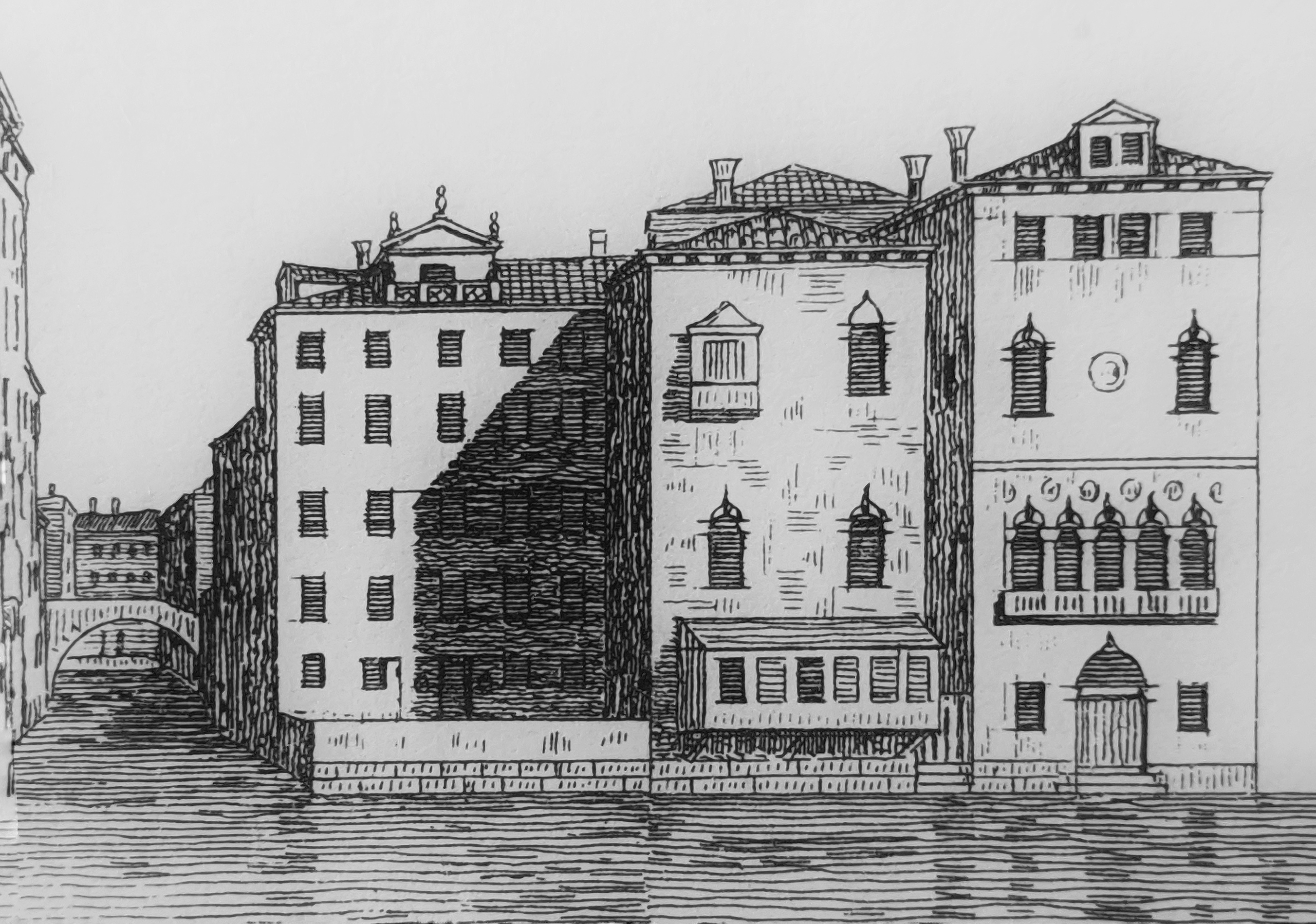 View of the site of the Bauer hotel in 1828, with the Grand Canal in the foreground and the Rio San Moisè on the left. These buildings were demolished in 1844-1900.